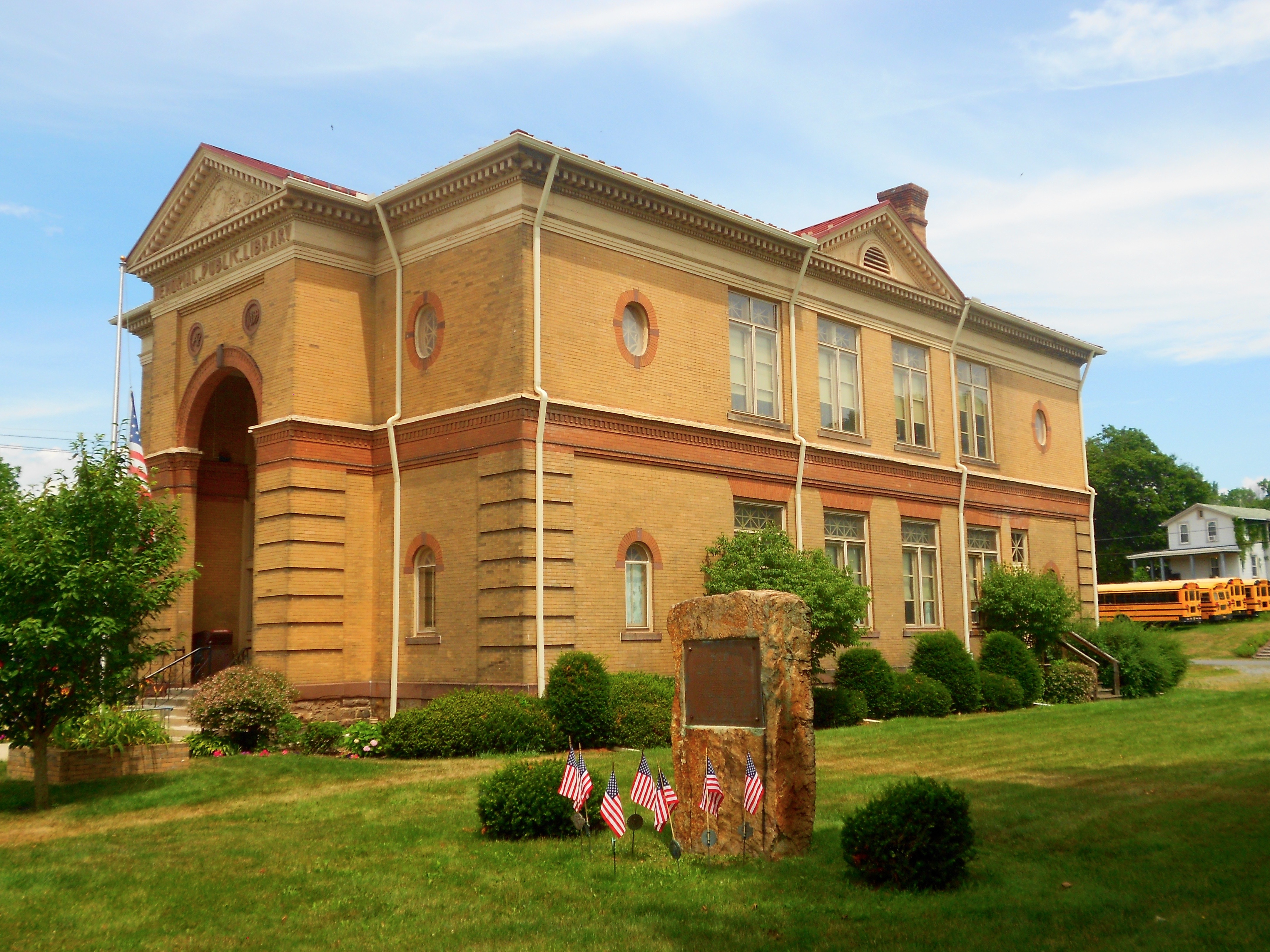 The library building in Alexandria, Huntingdon County, Pennsylvania. A very impressive small town library building.